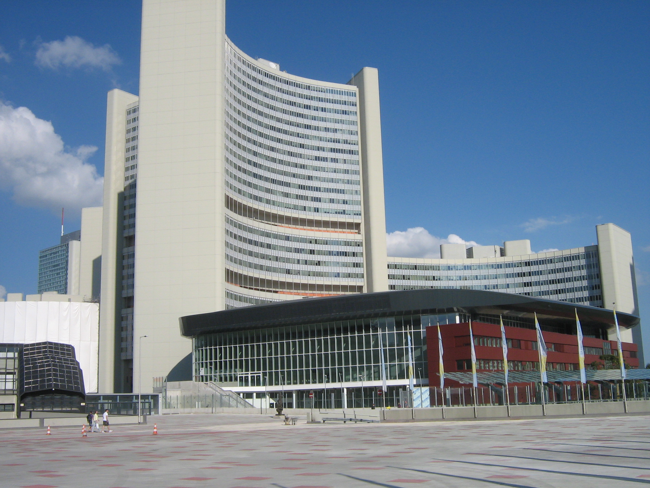 Austria, Vienna, Vienna International Centre